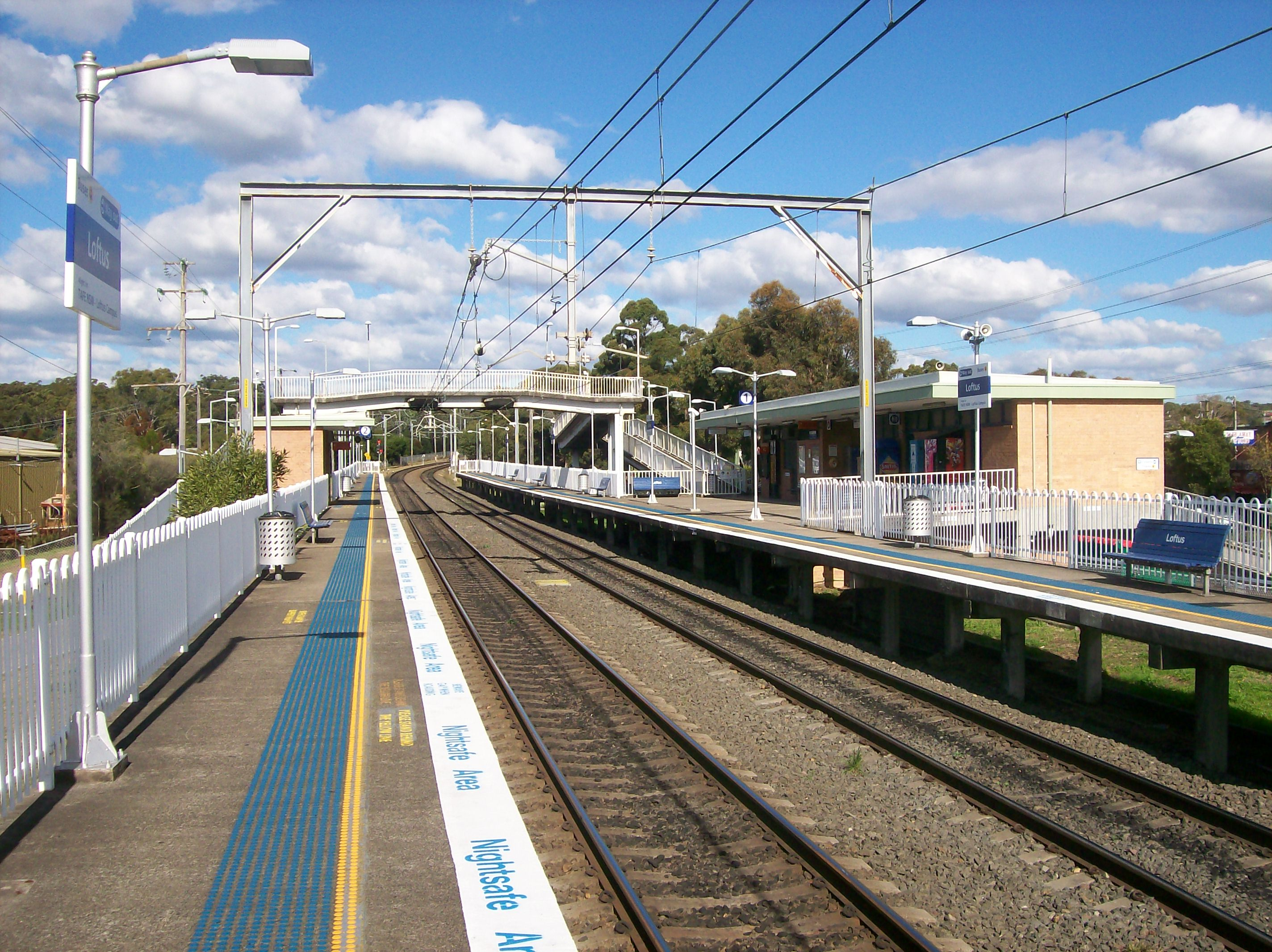 Loftus railway station